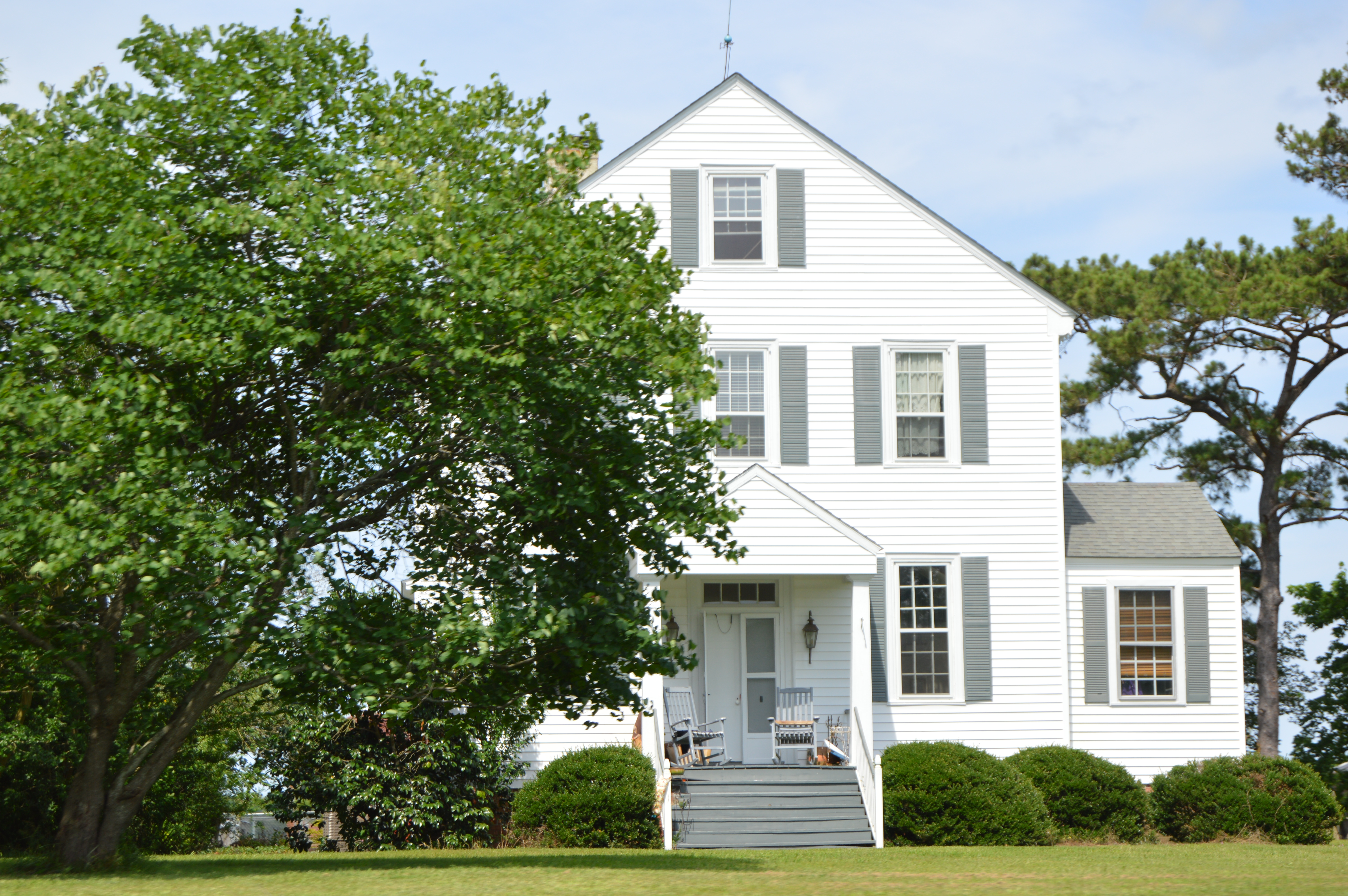 Front of Culong, located along Indiantown Road south of Shawboro in Currituck County, North Carolina, United States. Built in 1812, it is listed on the National Register of Historic Places.